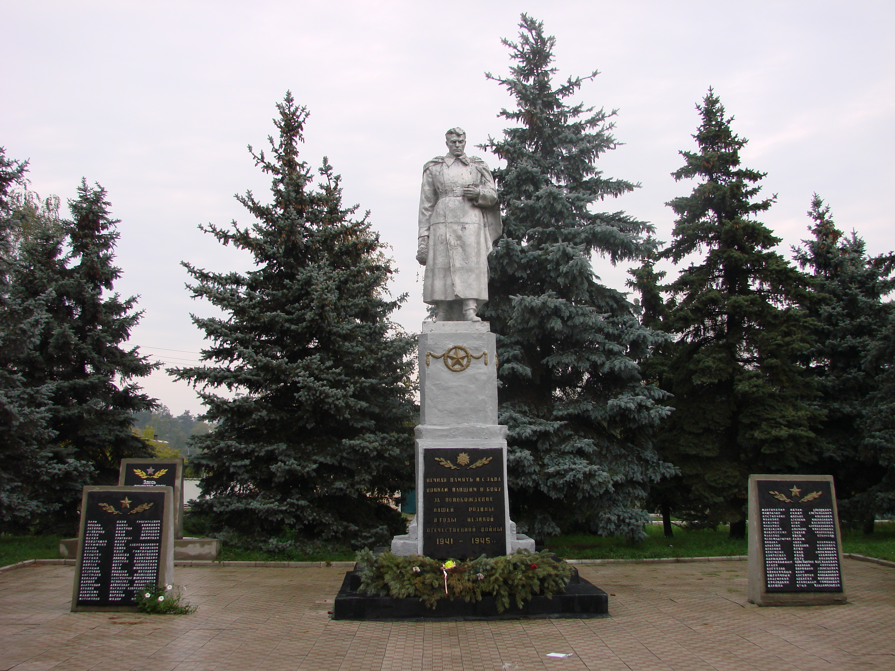 War Memorial, Svjatohirs'k, Donetsk Oblast, Ukraine